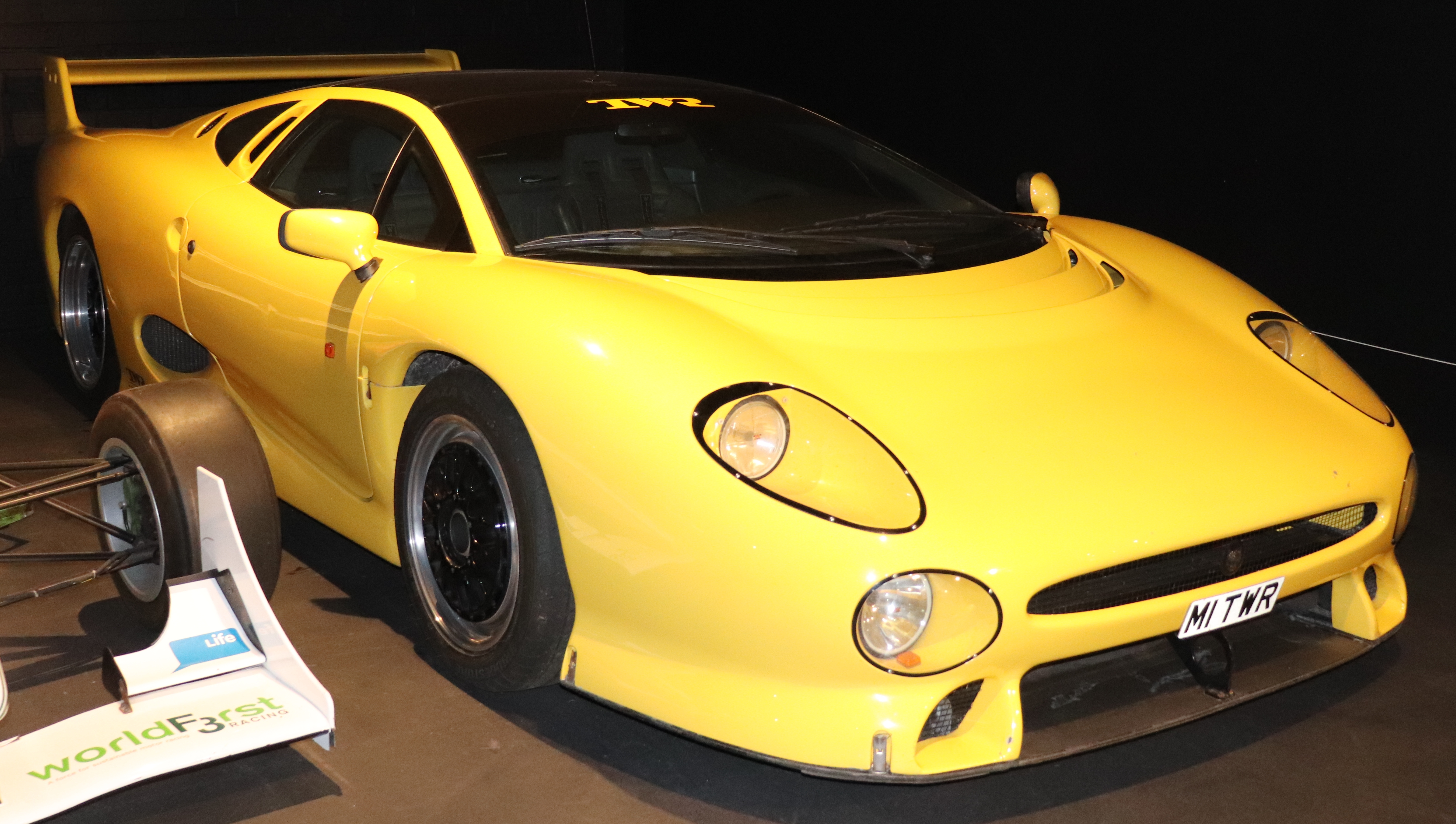 1994 Jaguar XJ220 S TWR 3.5 Taken in the Coventry Transport Museum